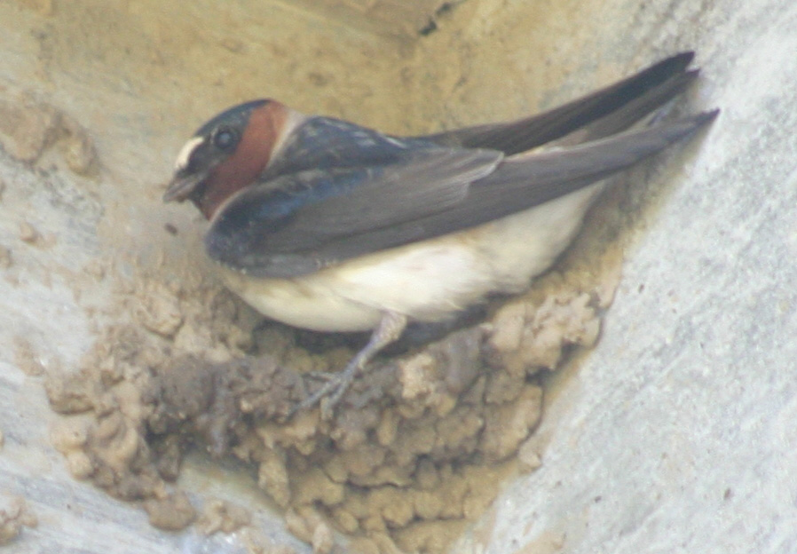 Cliff Swallow nesting under a bridge in Santa Cruz. Taken by myself, User:Stephen Turner, on May 13, 2006.